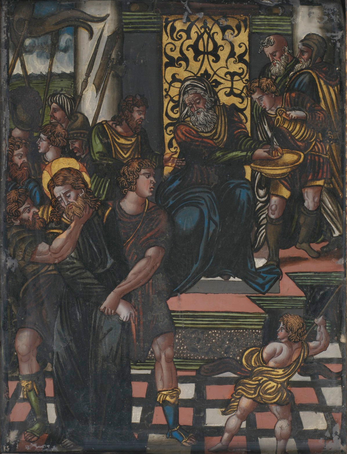 Christ before Pontius Pilate who is washing his hands of the guilt of the crime.